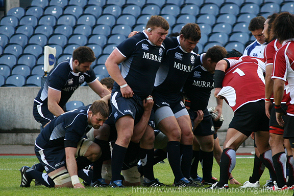 Scottish scrum with Allan Jacobsen and Ross Ford